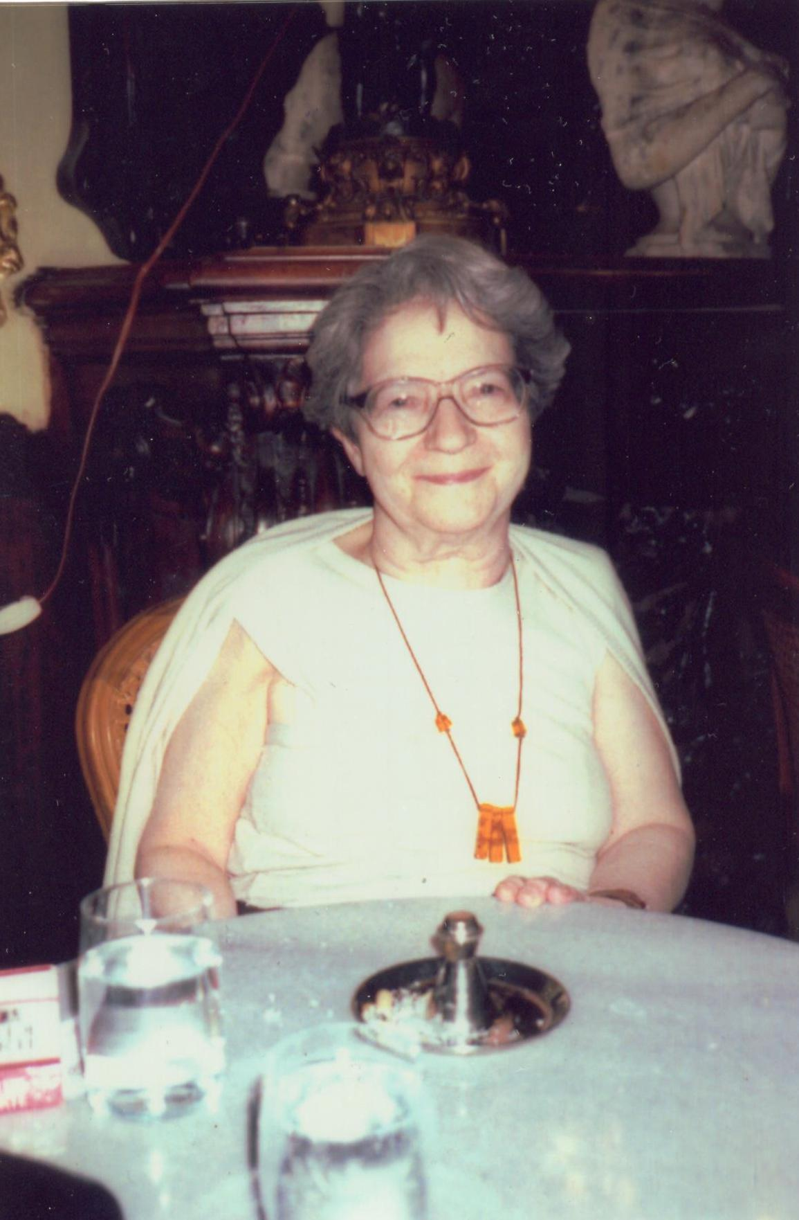 The poet Eszter Tóth, Árpád Tóth’s daughter